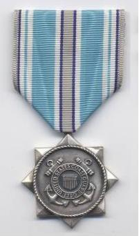 After the Gold and Silver Lifesaving Medals, this is the second highest civilian public service award presented by the U.S. Coast Guard.